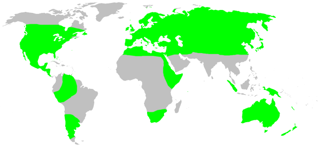 Zoridae habitat distribution, drawn after Platnick: World Spider Catalog 7.0. This is not at all a precise rendering of the distribution! If you have better information, please replace this map, or send me the info, and i will redraw it.